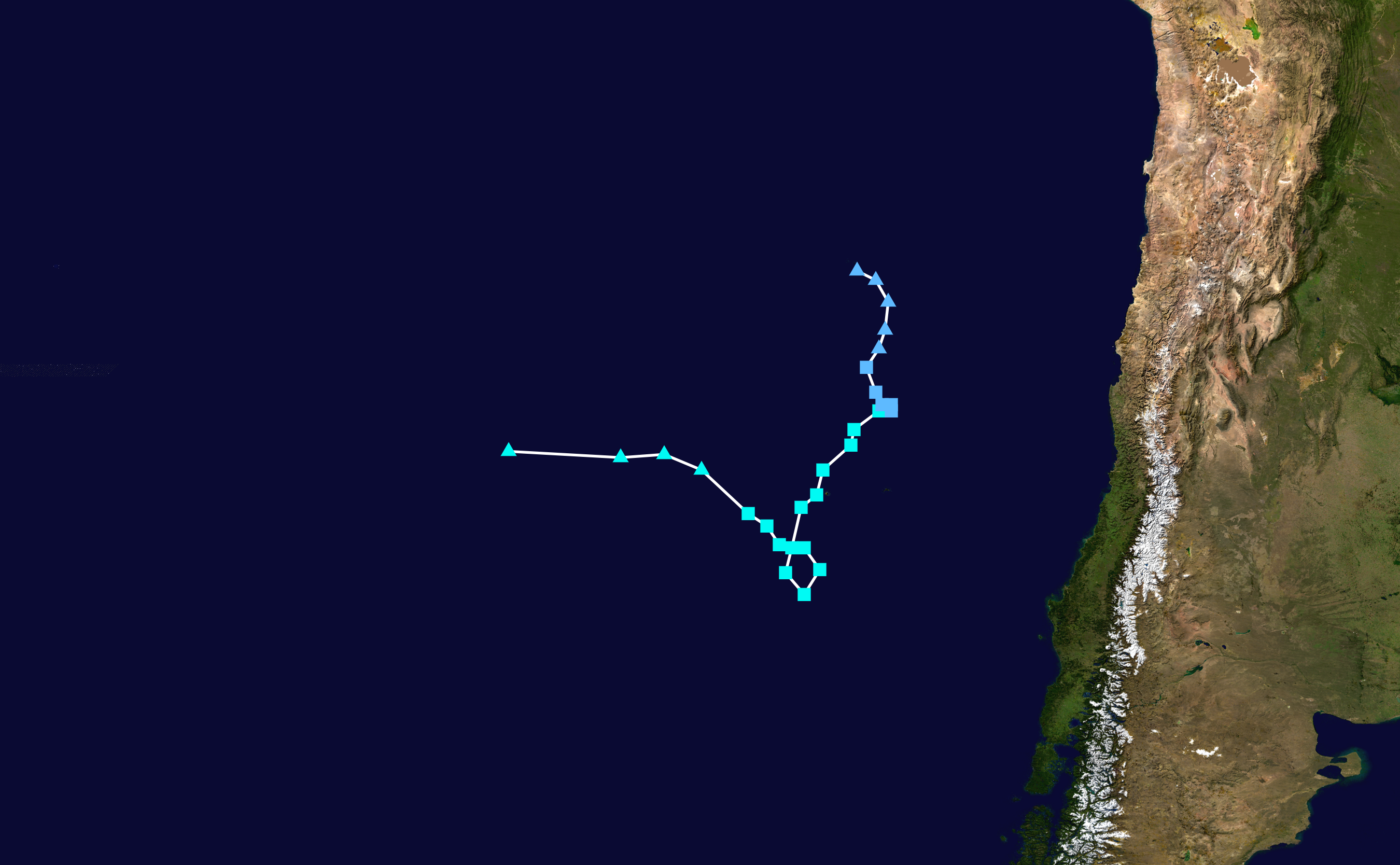 Track map of Subtropical Storm Lexi of the 2017–18 Southern Hemisphere tropical cyclone season. The points show the location of the storm at 6-hour intervals. The colour represents the storm's maximum sustained wind speeds as classified in the Saffir–Simpson scale (see below), and the shape of the data points represent the nature of the storm, according to the legend below. Saffir–Simpson scale Tropical depression≤38 mph≤62 km/h Category 3111–129 mph178–208 km/h Tropical storm39–73 mph63–118 km/h Category 4130–156 mph209–251 km/h Category 174–95 mph119–153 km/h Category 5≥157 mph≥252 km/h Category 296–110 mph154–177 km/h Unknown Storm type Tropical cyclone Subtropical cyclone Extratropical cyclone / Remnant low / Tropical disturbance